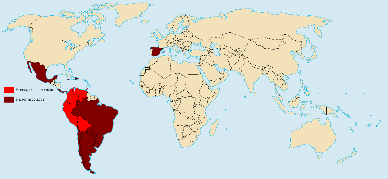 CAF members